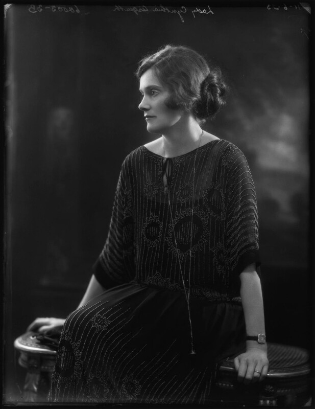 Lady Cynthia Asquith. Whole-plate glass negative, 11 June 1923.